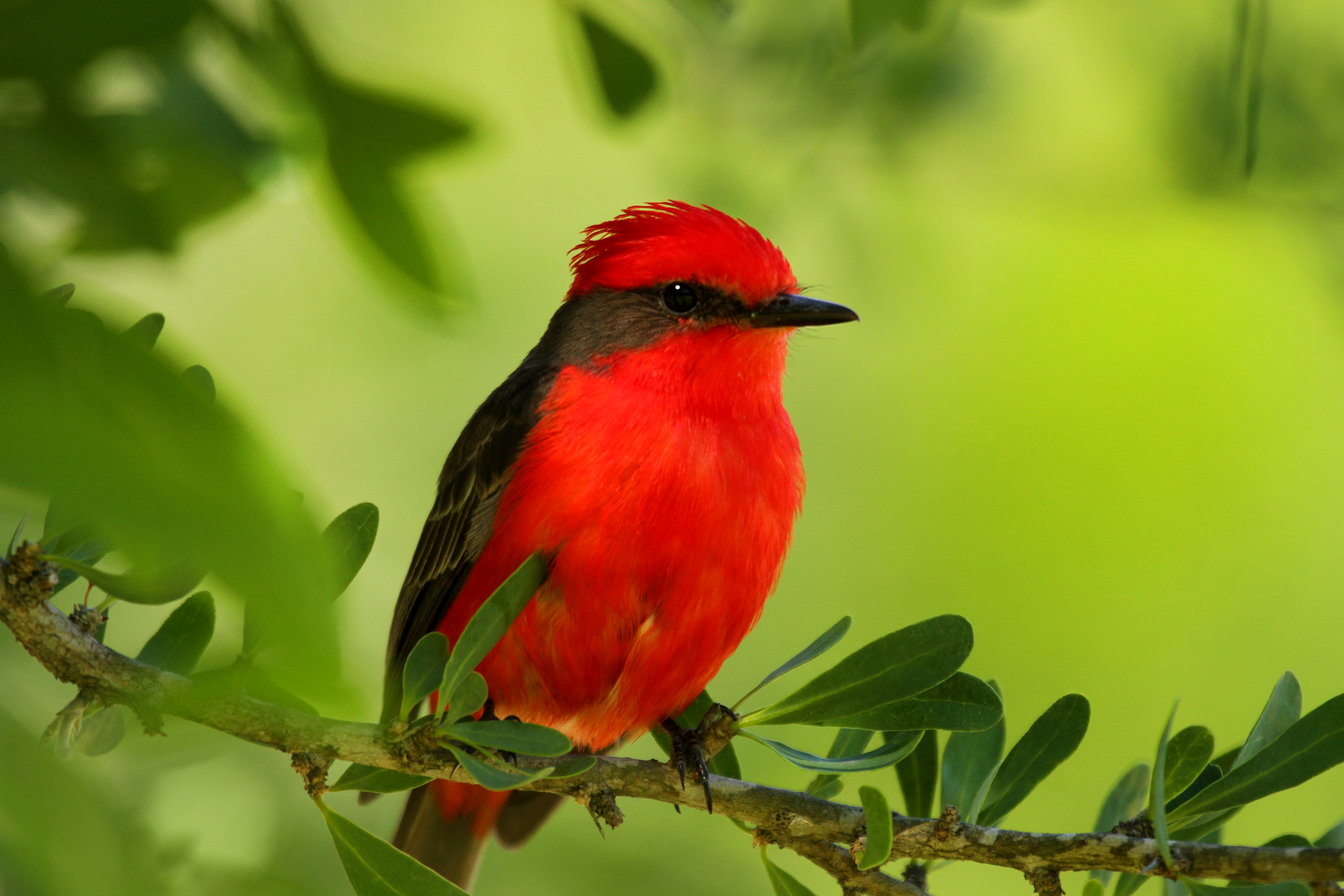 a "Churrinche" ( Vermilion Flycatcher) of the Pyrocephalus rubinus species, perched in a tree near Minas, Uruguay